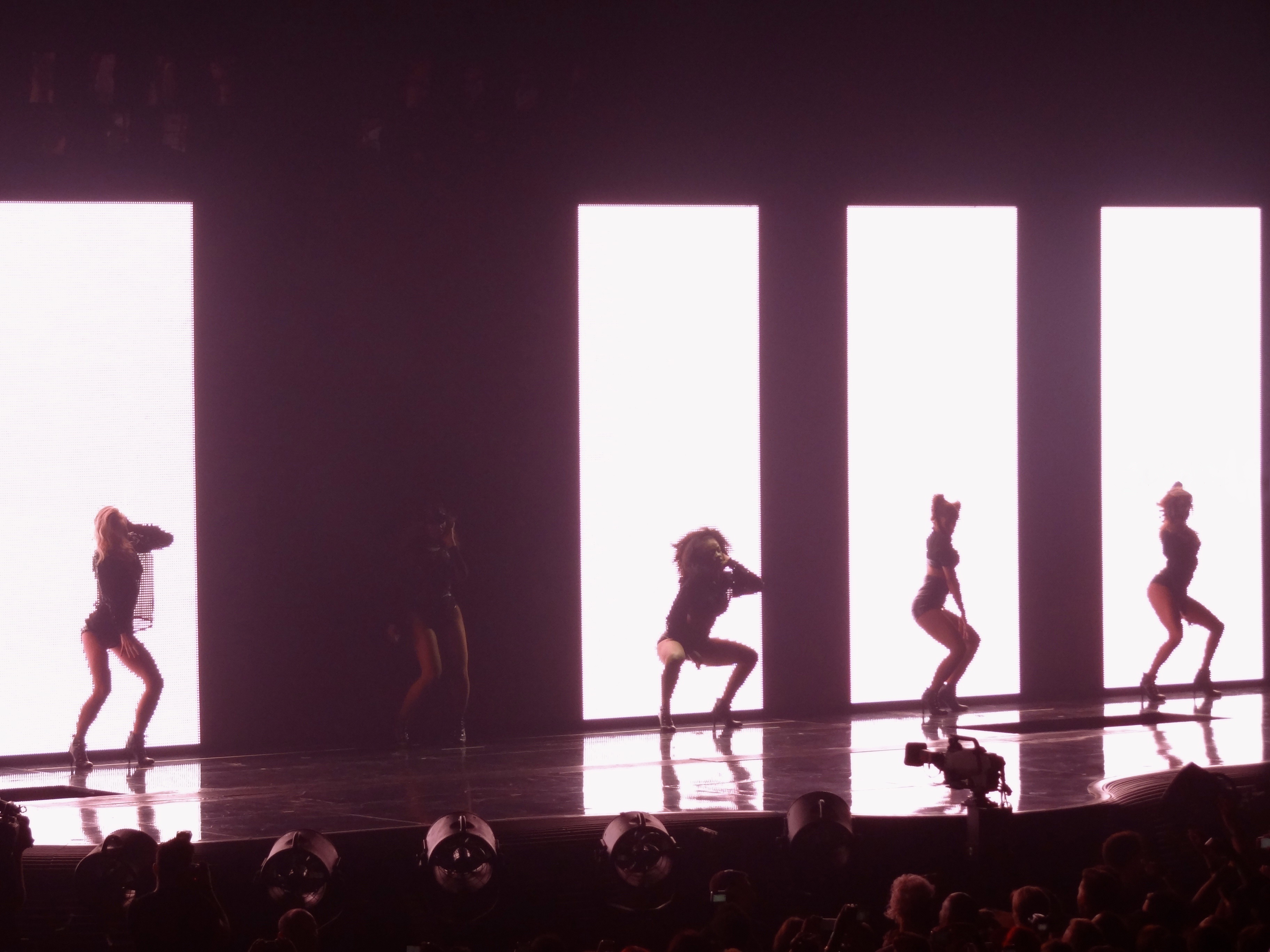 Beyonce performing in Montreal in 2013 during The Mrs. Carter Show World Tour.